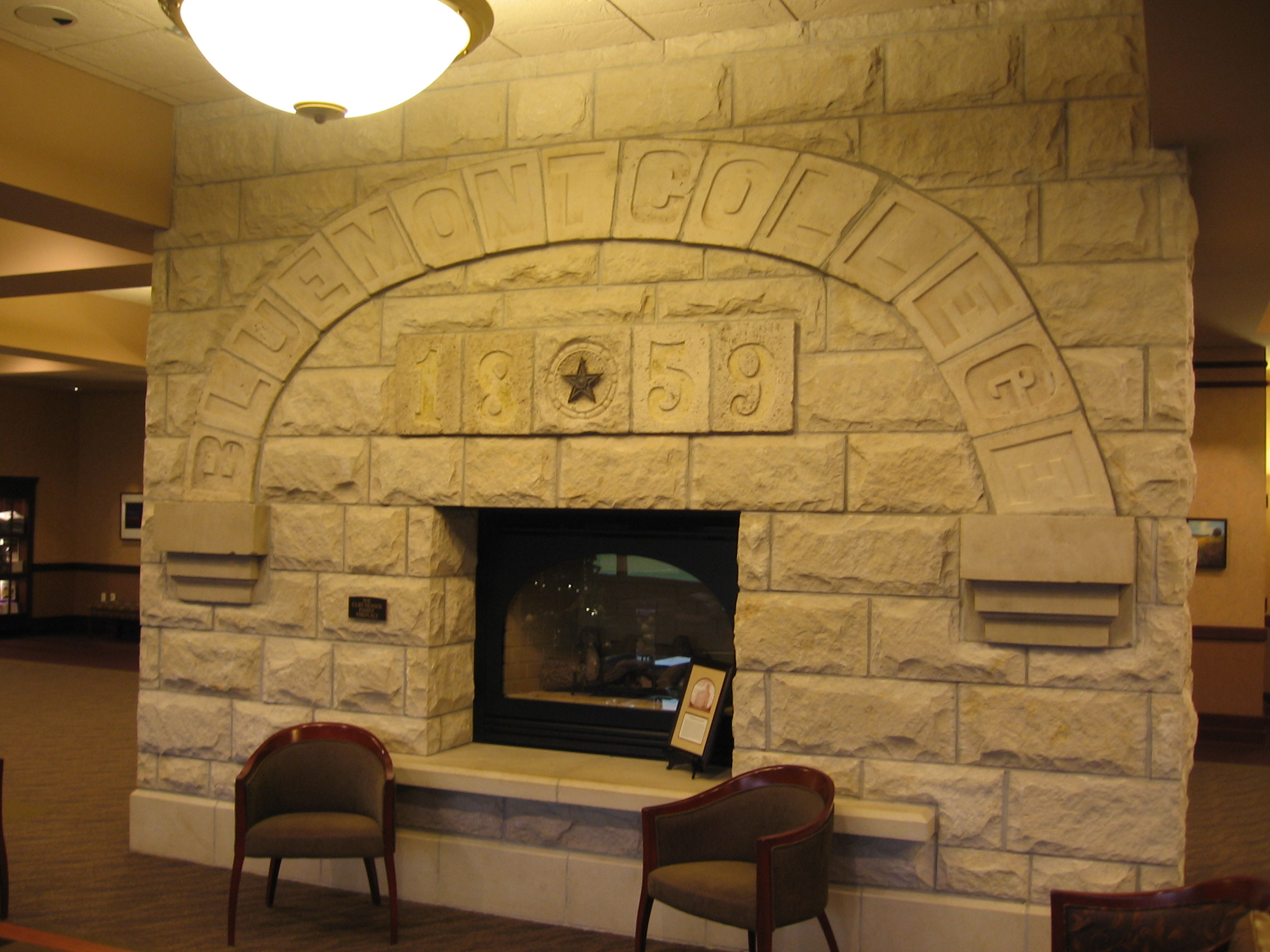 Photo of old arch from Blue Mont College building in Manhattan, Kansas, dating from 1859. Now in Alumni Center building at Kansas State University.